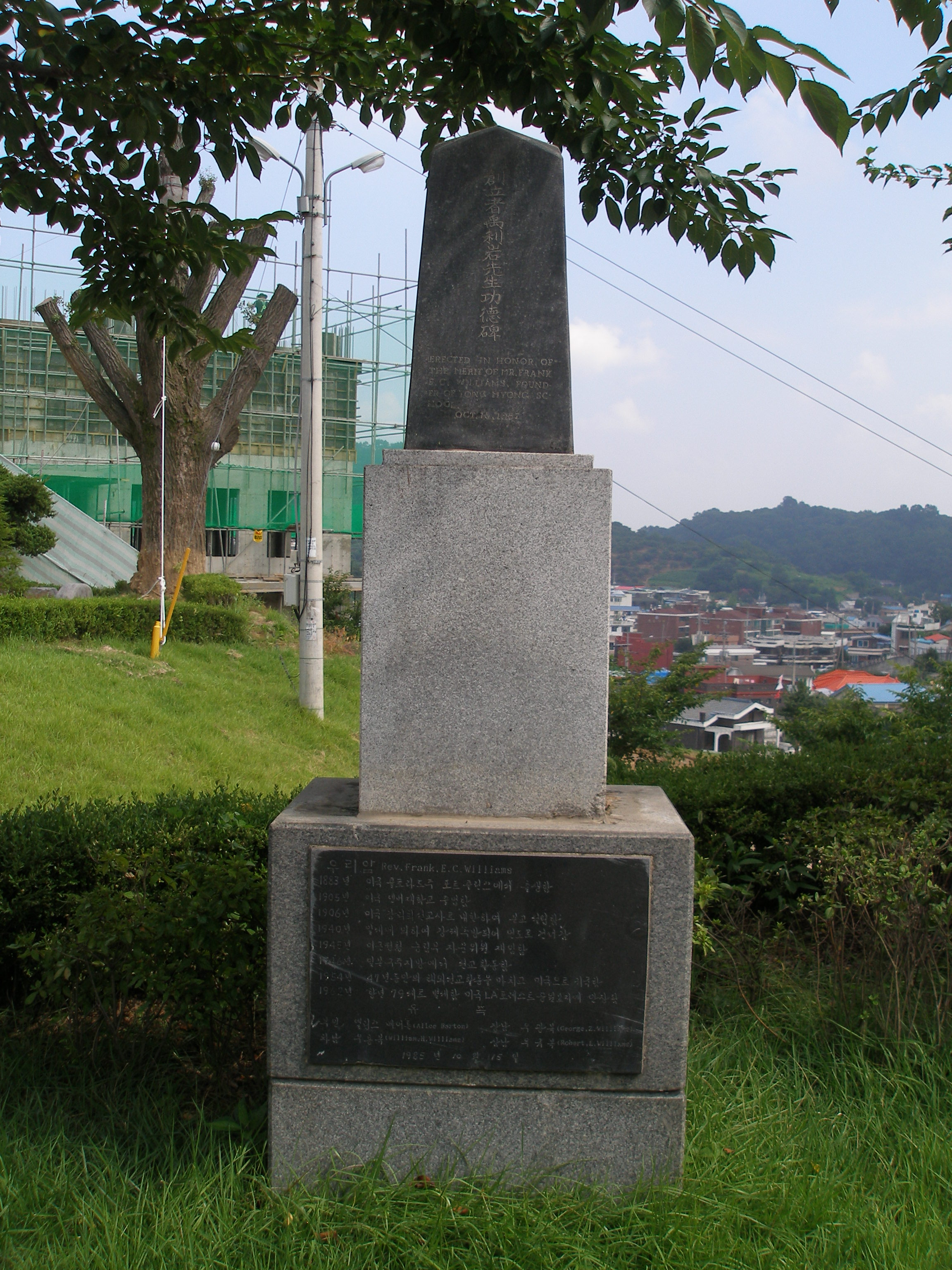 Memorial stone Franklin Earl Cranston Williams in Yeongmyeong school, Gongju, Korea